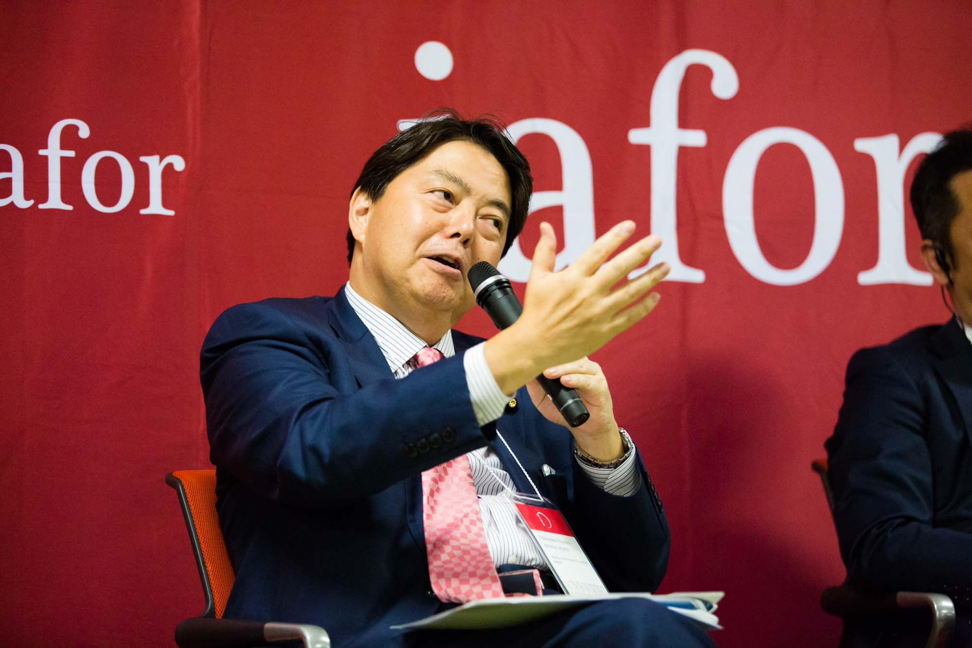 Minister Yoshimasa Hayashi speaking at The IAFOR Global Innovation & Value Summit (GIVS) in Tokyo, Japan.